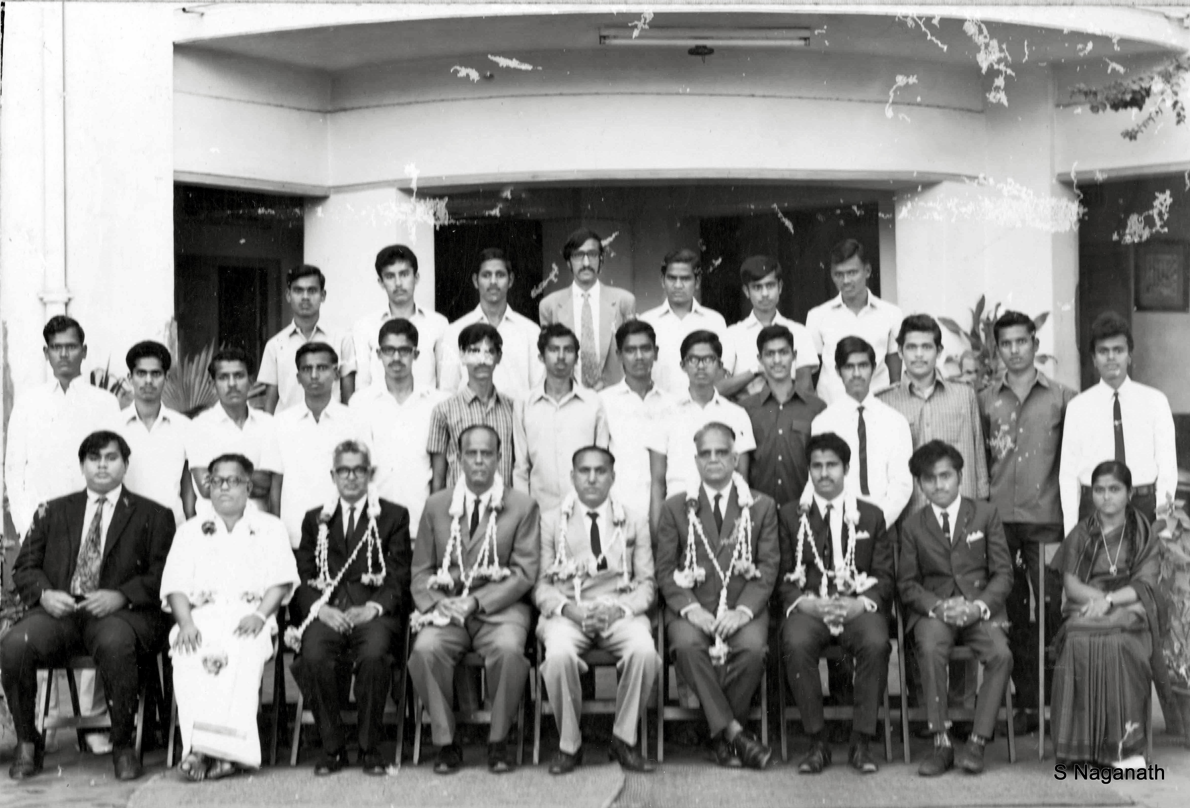 Srikanta Dutta Narasimharaja Wodeyar with Prof S. Naganath at Manasa Gangotri studying Bachelor in Arts (1972)